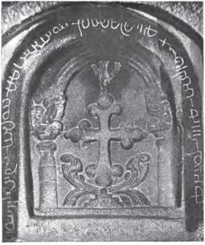 The cross of St. Thomas, as carved in a VIIth century black stone. This cross is to be found in the church of 'Our-Lady of Expectation' built on the top of St.Thomas Mount, Chennai (India)